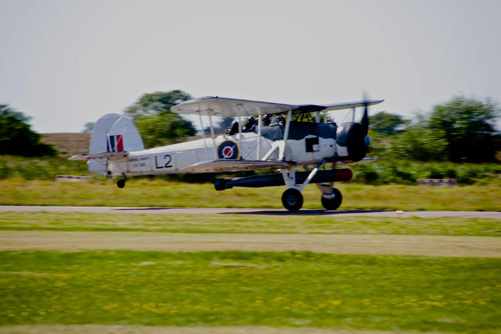 The Fleet Air Arm lives on at Shoreham airshow. A Swordfish does a wheel landing